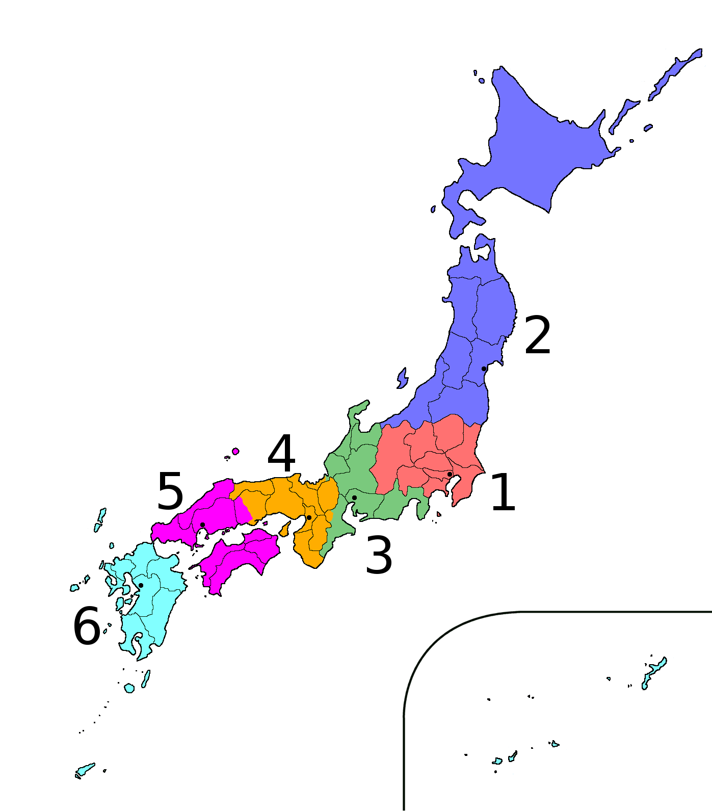 6 Divisional Regions (shikan) of Japanese Imperial Army from May 12 of 1888 by May 19 of 1890. Derived from File:Japan template large.png.